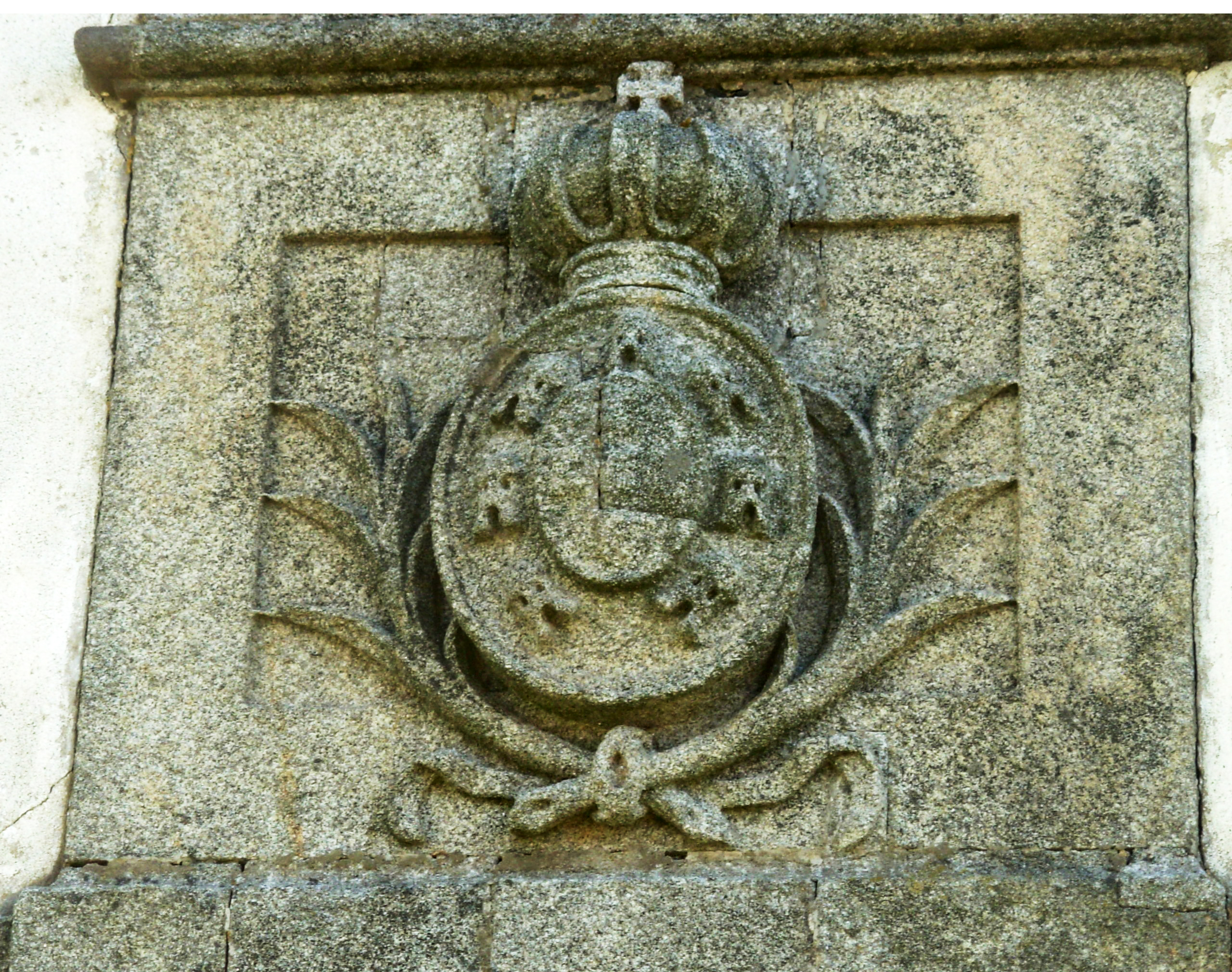 Coat of arms in Senhora da Luz lighthouse, Foz do Douro, Oporto, Portugal